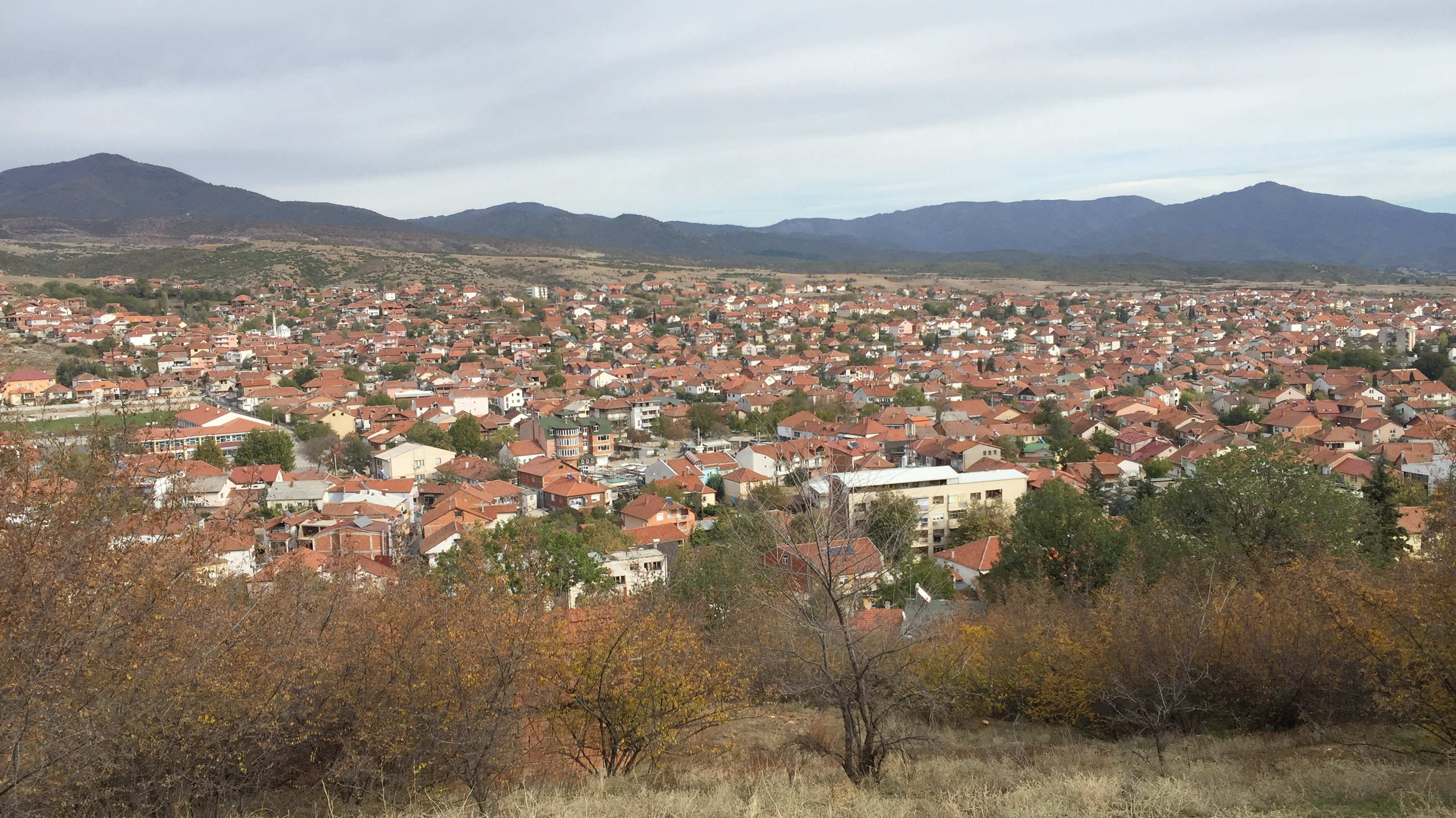 Radovis View